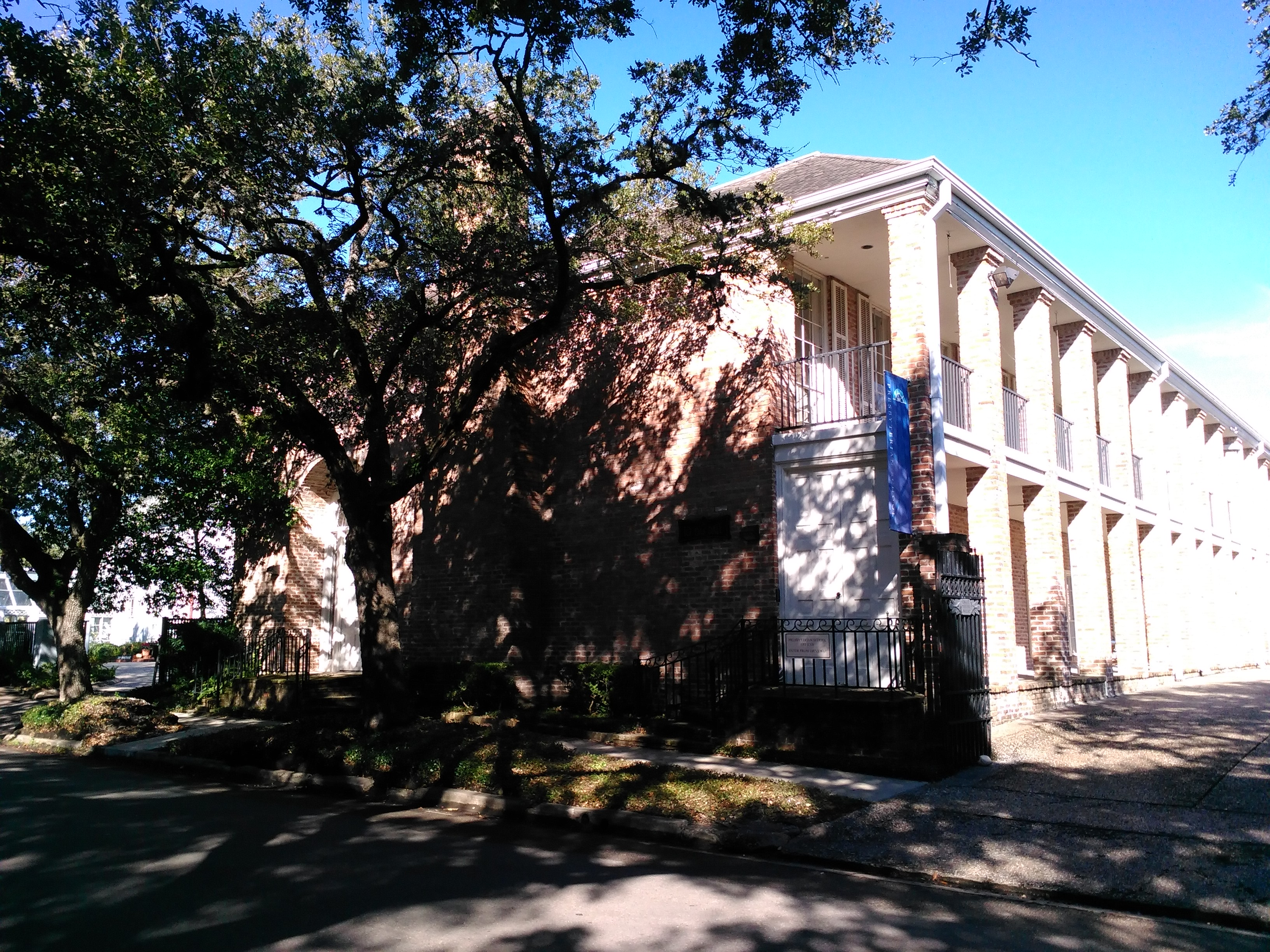 Presbyterian School offices, 10 Oakdale